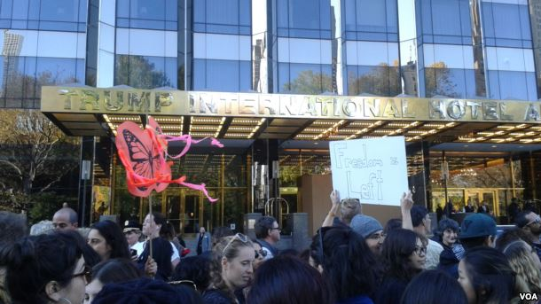 Anti-Trump protesters march between Columbus Circle and Trump Tower in New York City, Nov. 13, 2016 (B. Leverone-VOA)